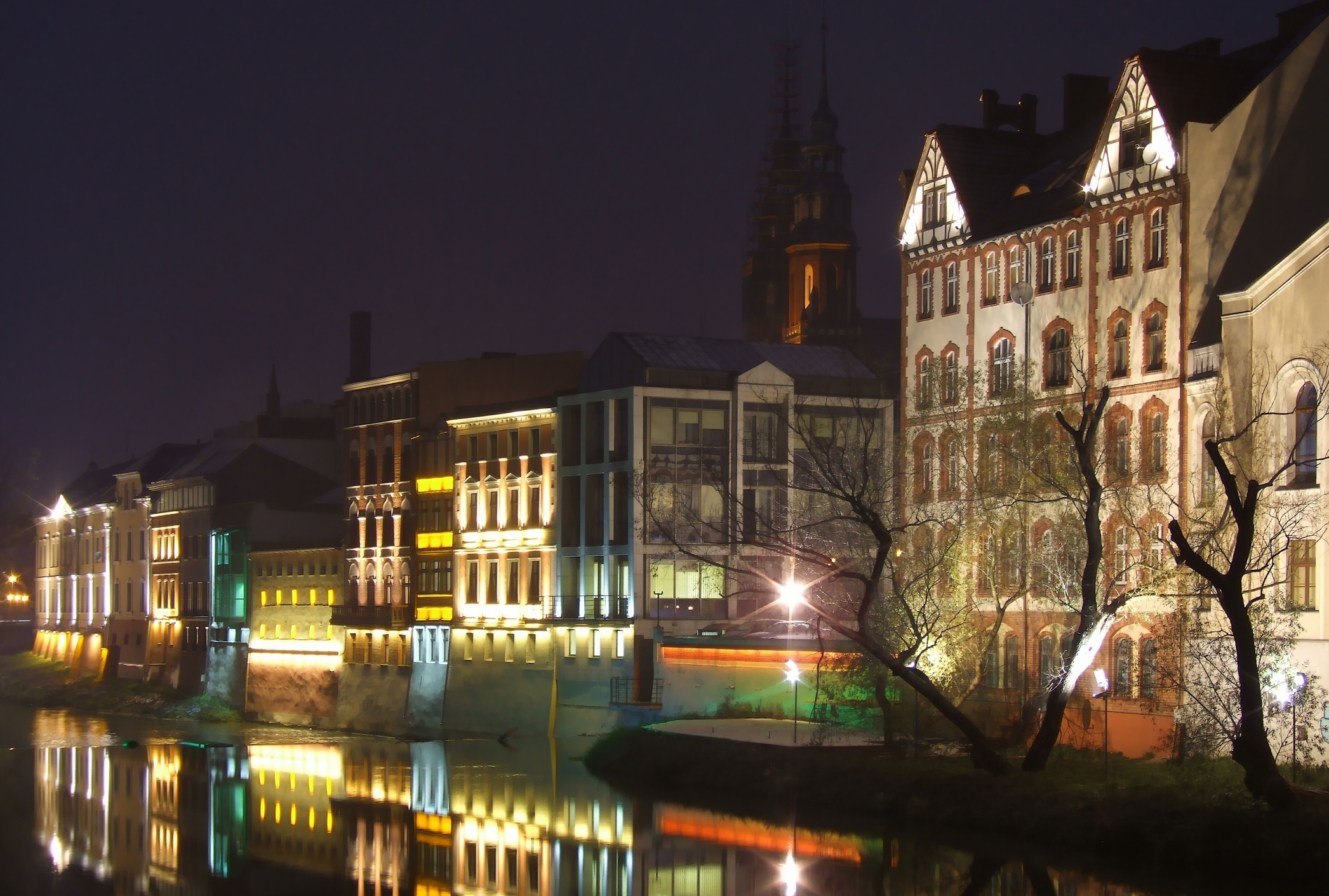 Die Häuserfront von Oppeln bei Nacht Ślůnski: Uopole bez noc